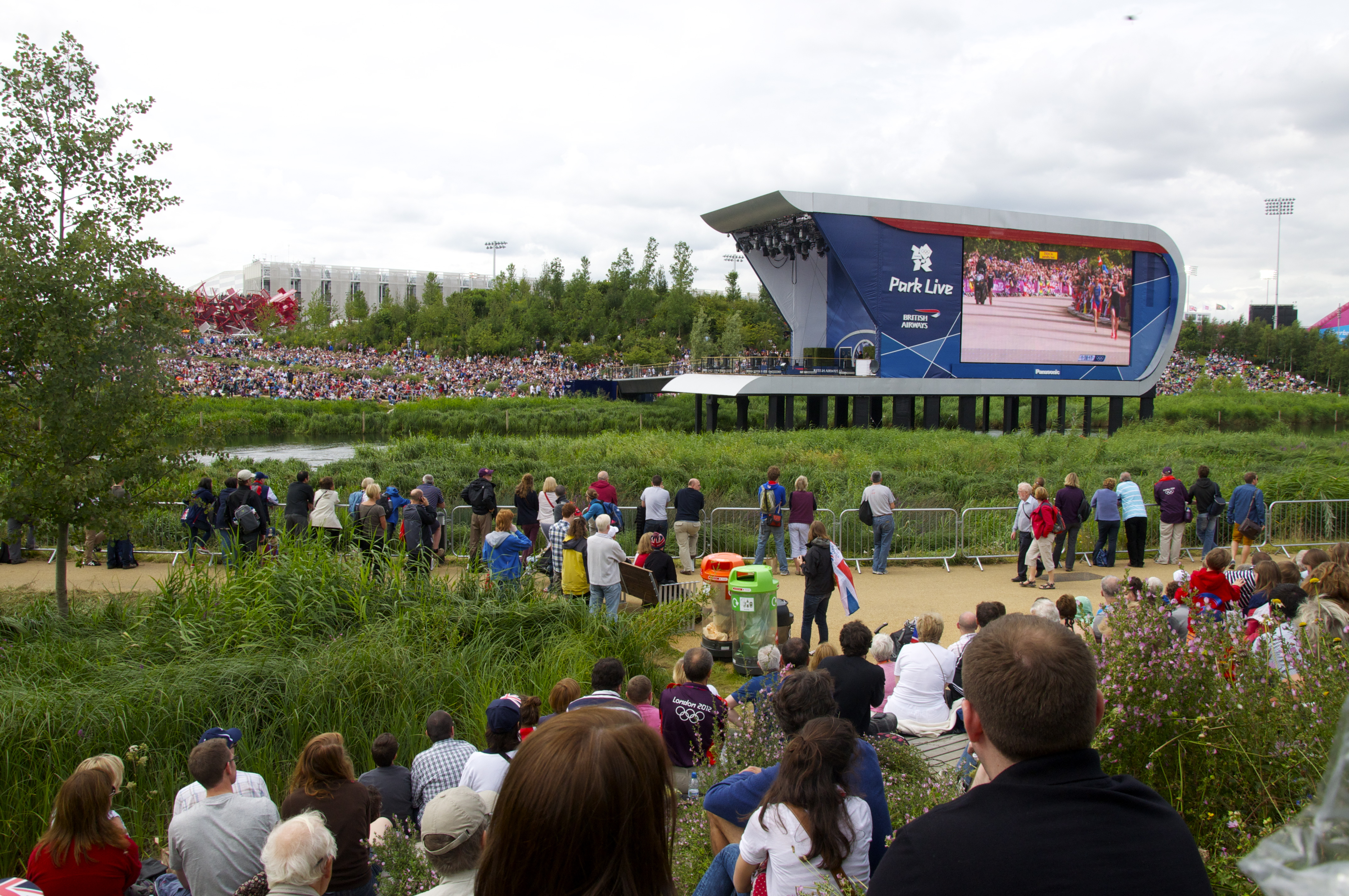 Watching Alistair Brownlee win the triathlon!